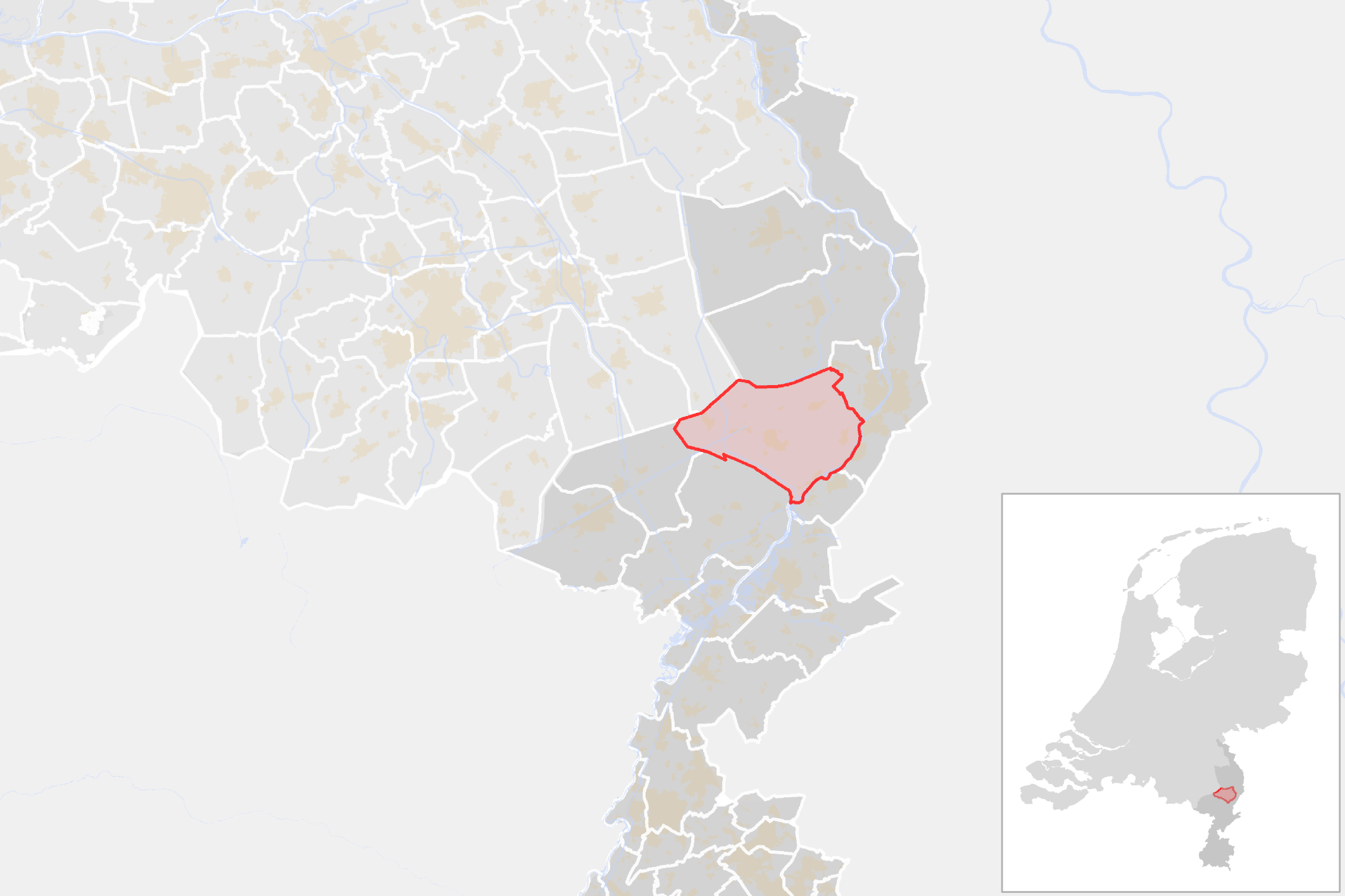 Locator map showing municipality boundary of one of the 390 Dutch municipalities (as of 2016)